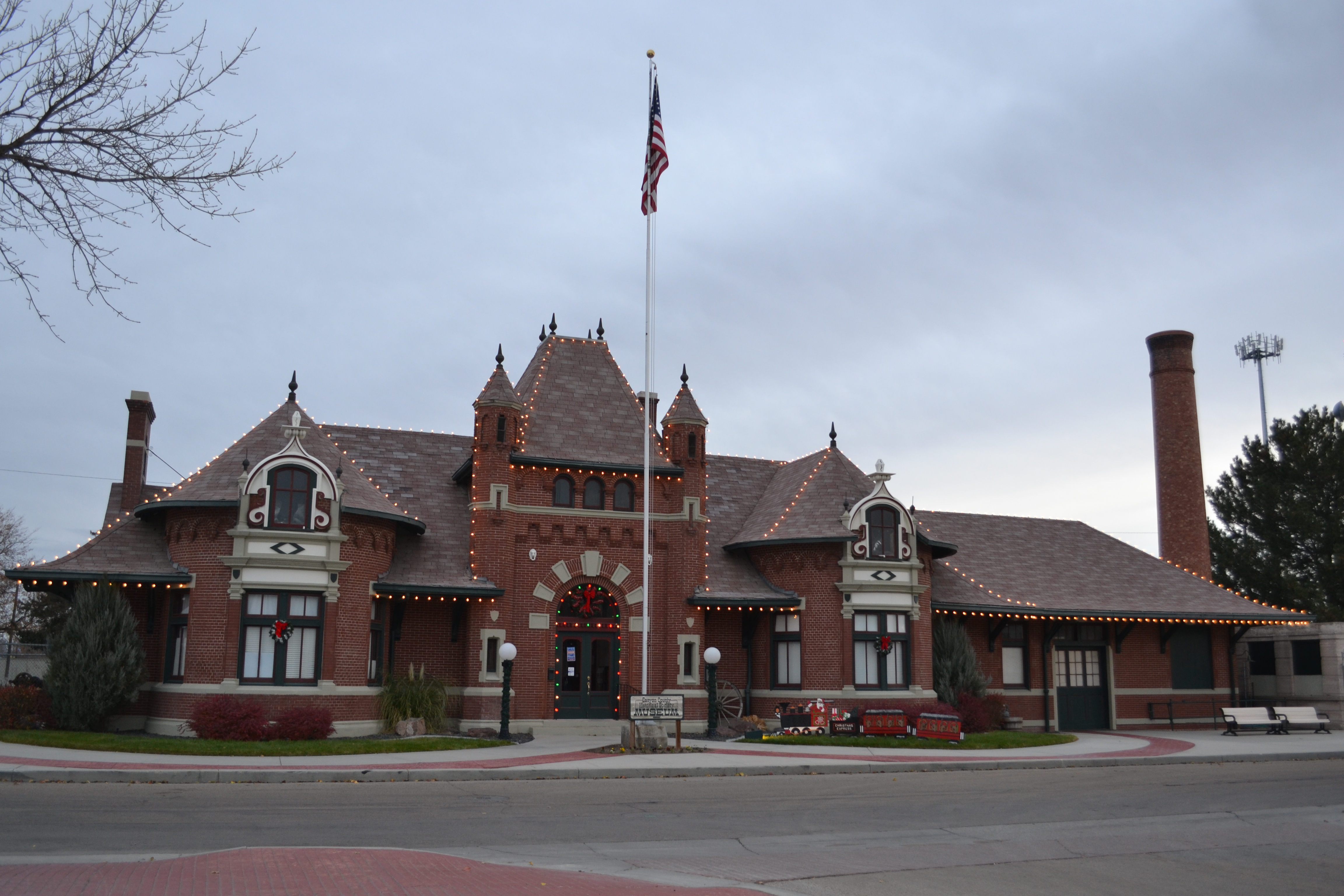 The site is now the local historical museum. Not to be confused with the 1920s depot building that was subsequently used by Amtrak until 1997.